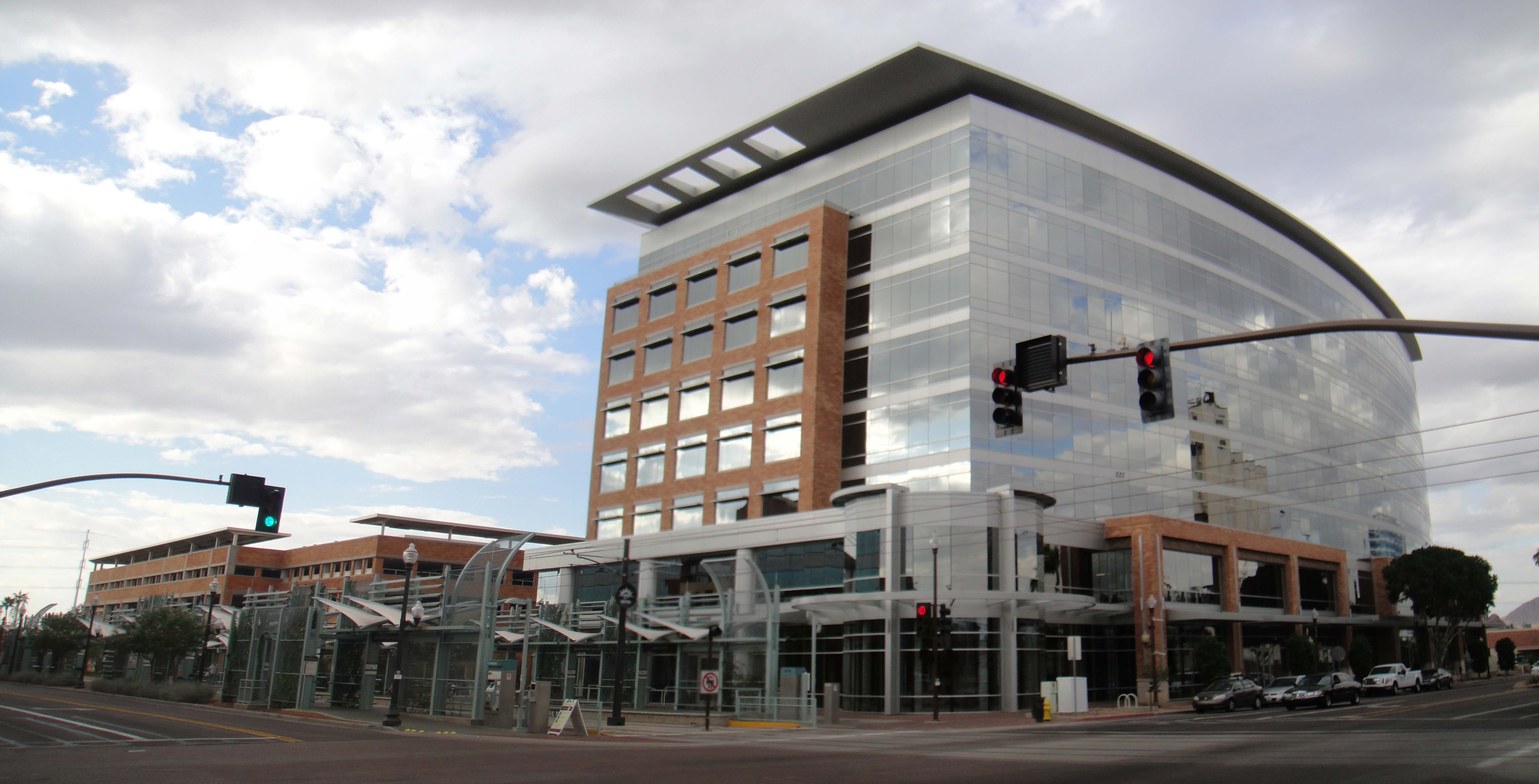 Photo of the southeast corner of the Downtown Tempe Metro Light Rail station.